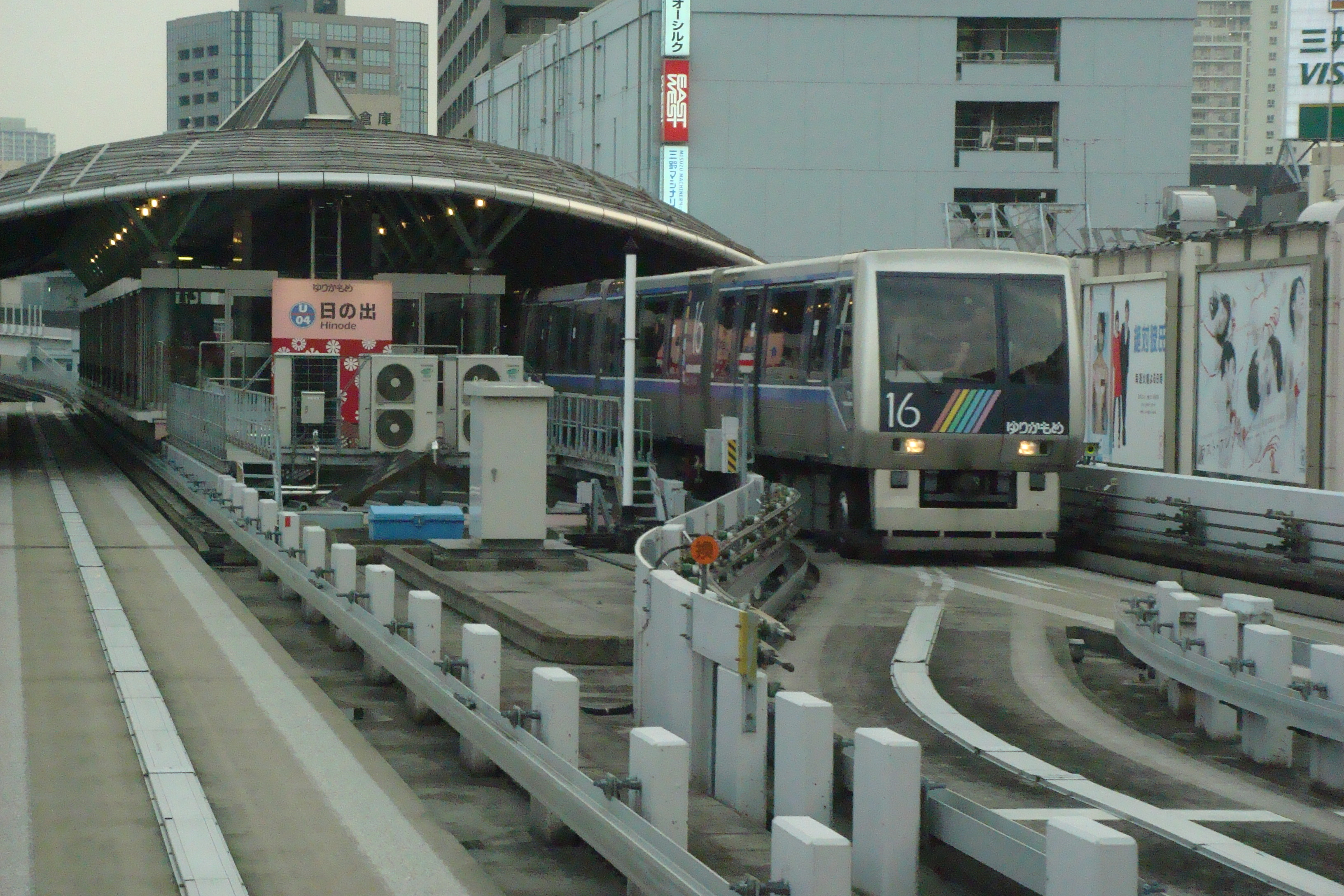 Hinode Station (2008/05/16 Minato, Tokyo, JAPAN)